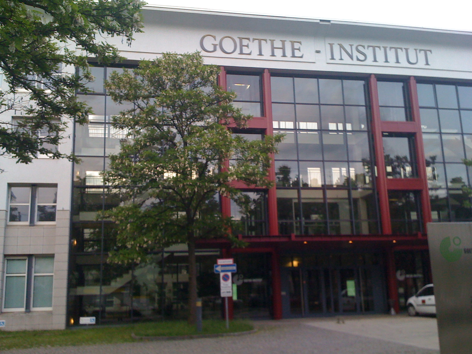 Goethe Institut headquarters in Munich